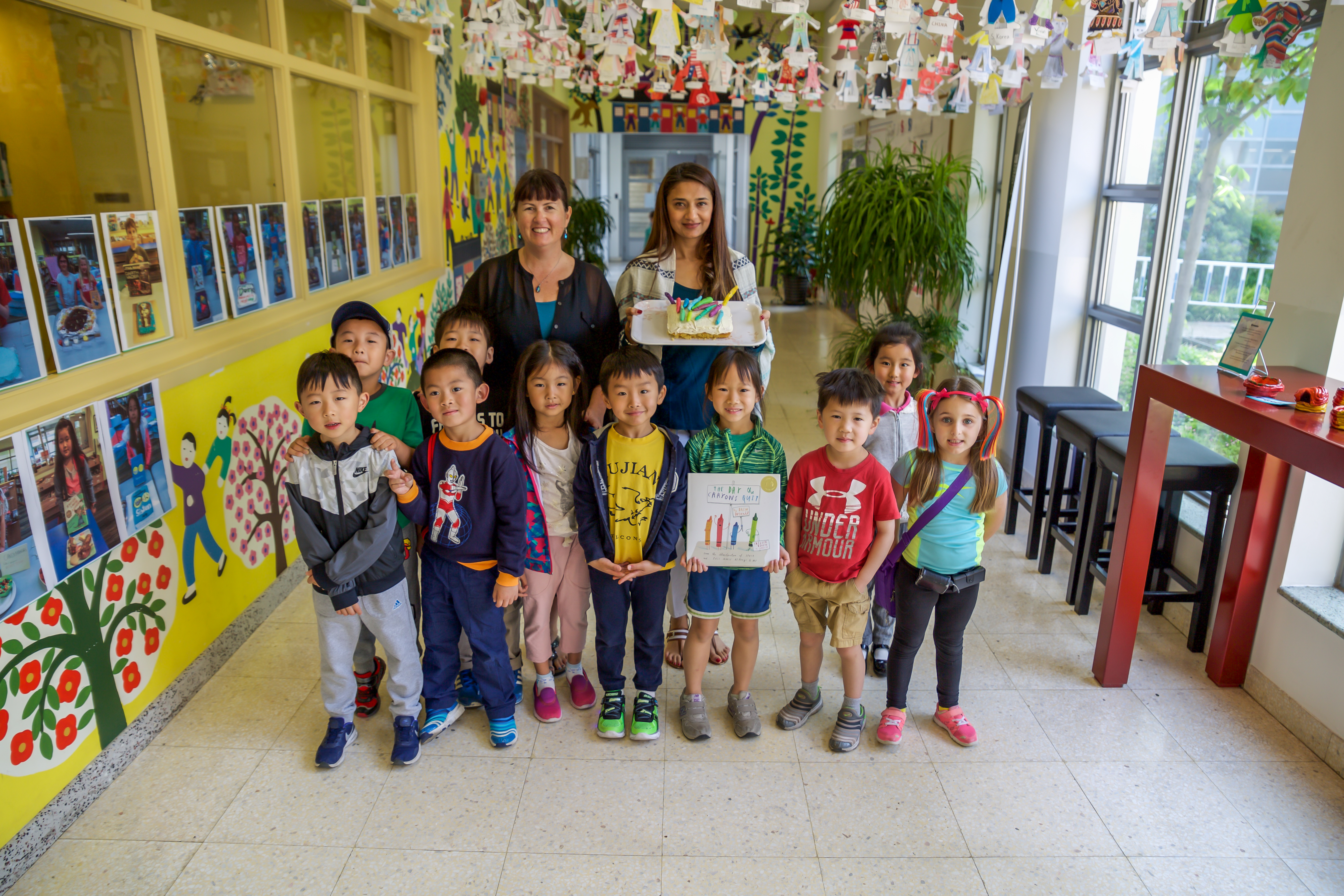 Books to Eat, Elementary School, Pudong Campus